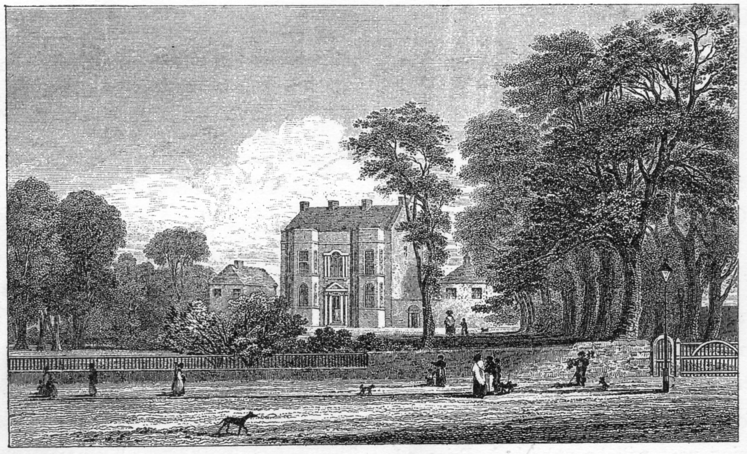 Bingley House in 1830, the original building on the site of the Bingley Hall, Birmingham, England.